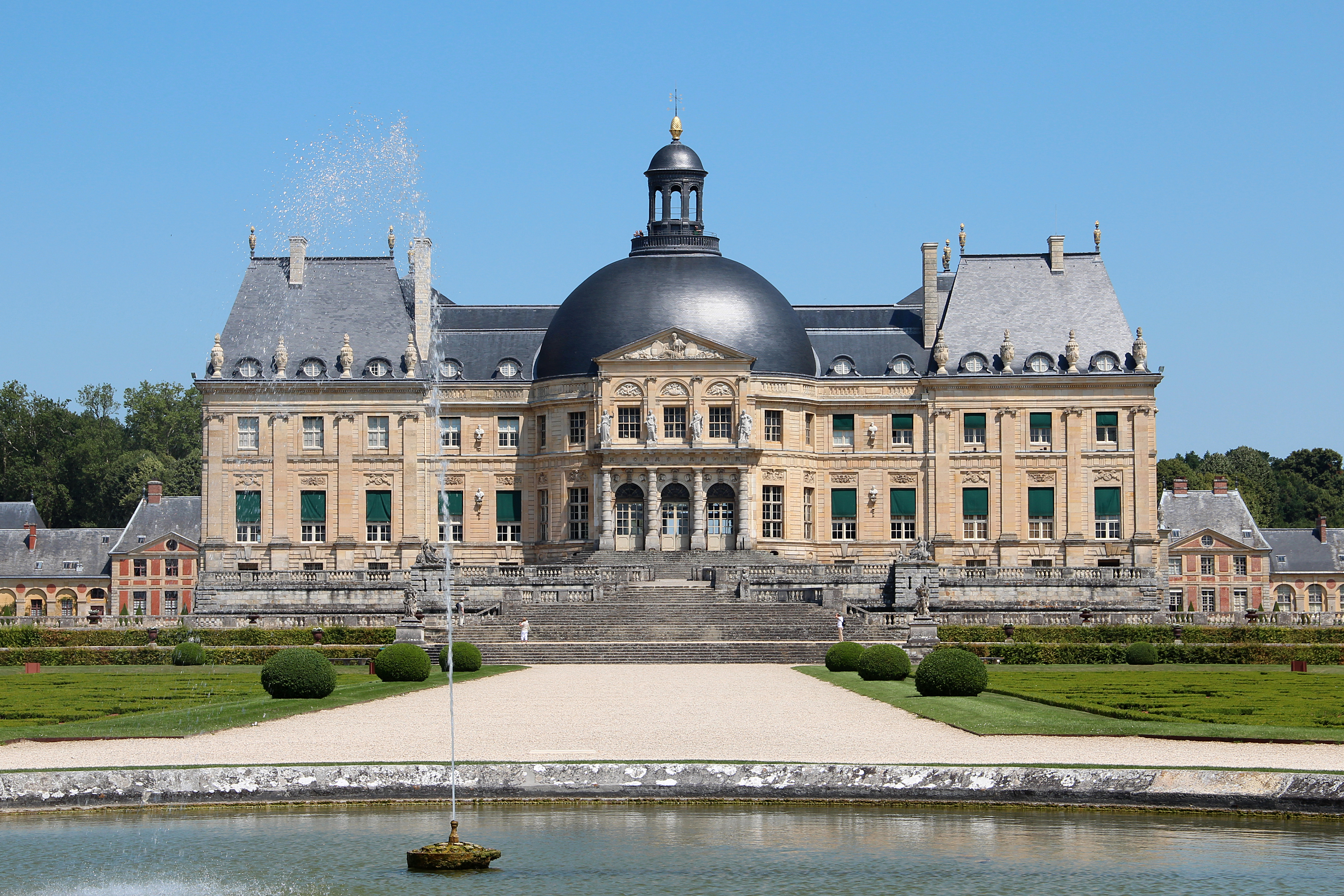 The south facade of the castle of Vaux-le-Vicomte seen from the "Rond d'eau" - Maincy (Seine-et-Marne, France).